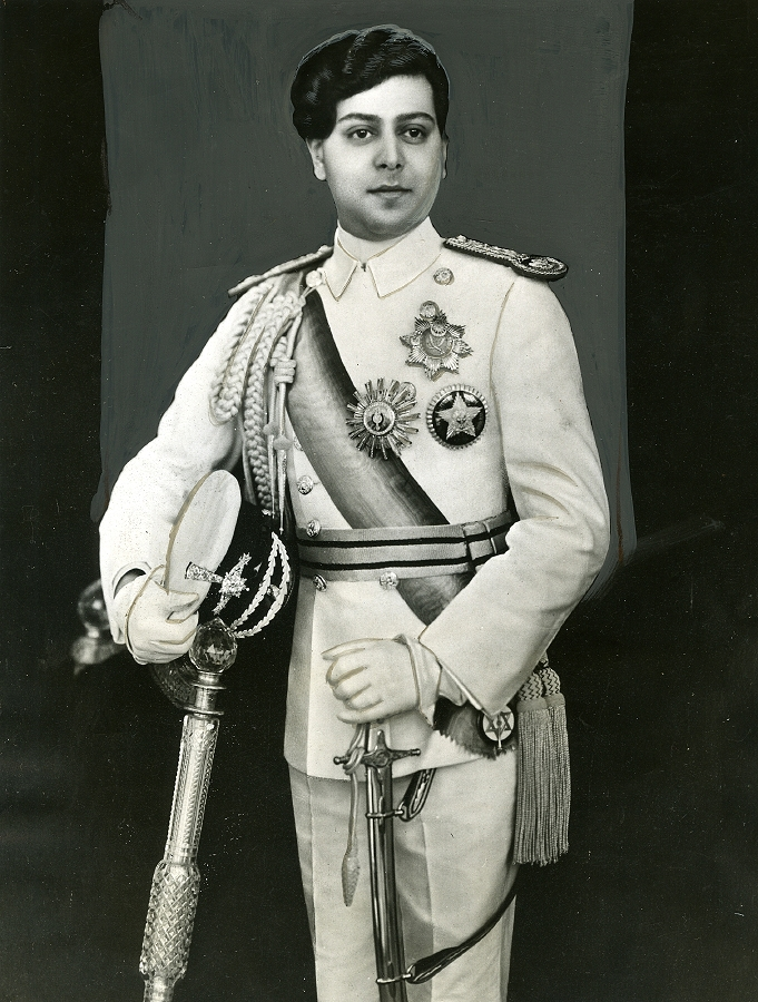 King Tribhuwan of Nepal at 1937 on 25th anniversary of coronation ceremony